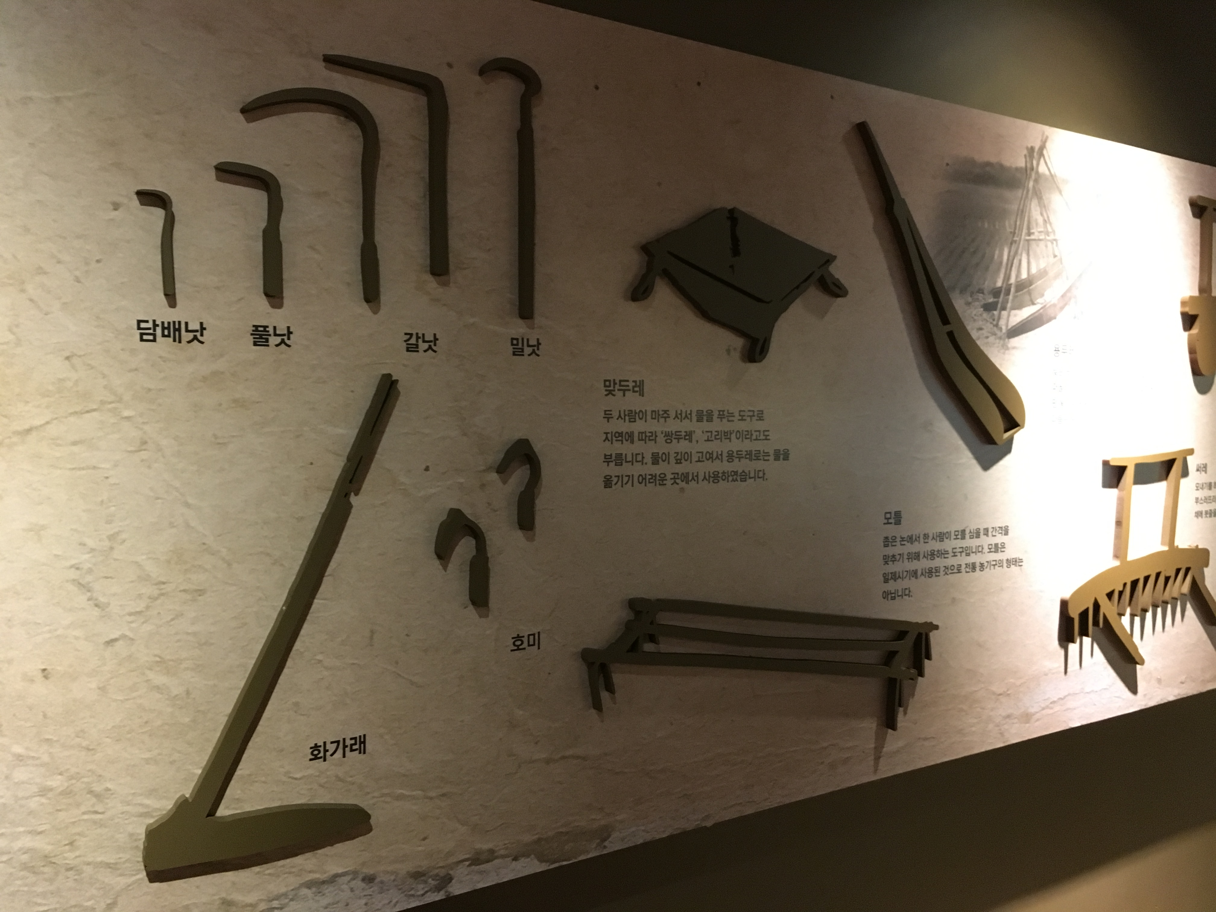 Homi is a simple representation of old farming tool of Korea. Picture from Agricultural Technology History Hall in Suwon.